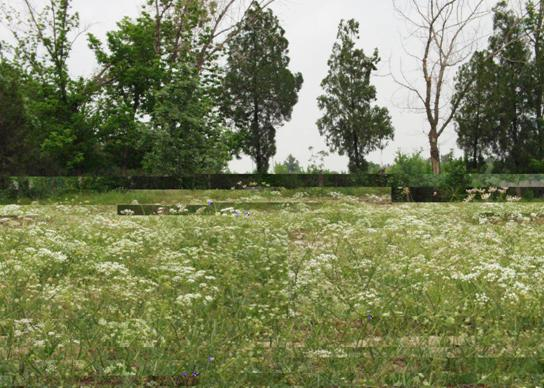 The photo was taken from a field in the fourth year after planting of Bunium persicum in Mashhad, Iran